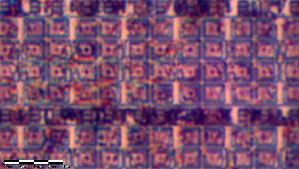 Integrated circuit die photo of a 1886VE10 radiation hardened 50MHz microcontroller designed by Milandr and manufactured by Sitronics-Mikron on 180nm bulk-silicon technology. MLDR62. View from an optical microscope post metalization etching.